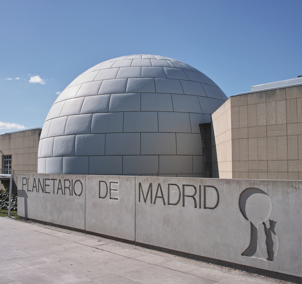 Madrid Planetarium